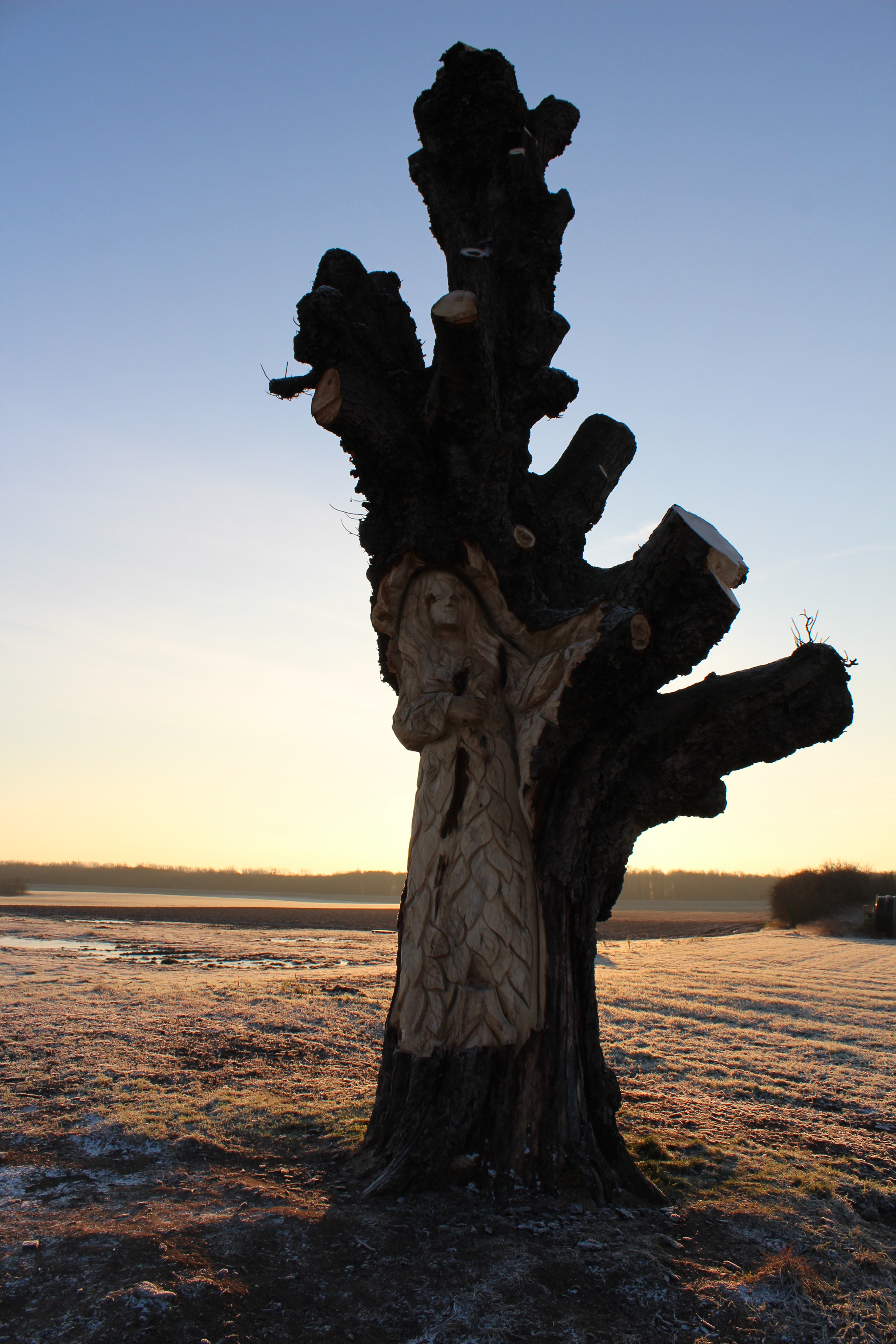 Sculpture of the tree spirit "Jüchtwind" in Düsseldorf-Himmelgeist, Germany, created from the stump of the locally famous Himmelgeist horse-chestnut tree by wood carving artist Jörg Bäßler.